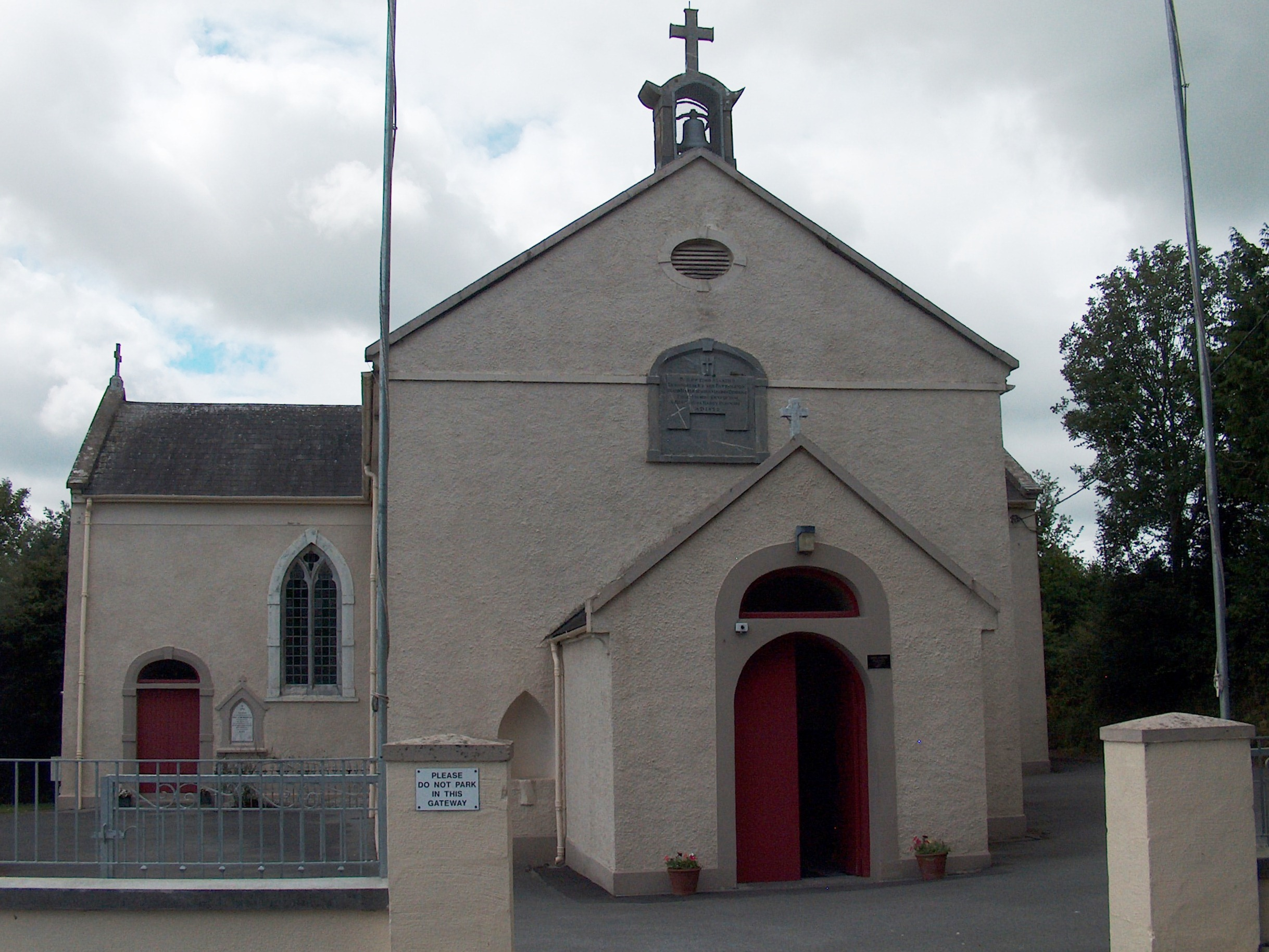 Church of Mary, Mother of God, Ballygarvan, County Cork